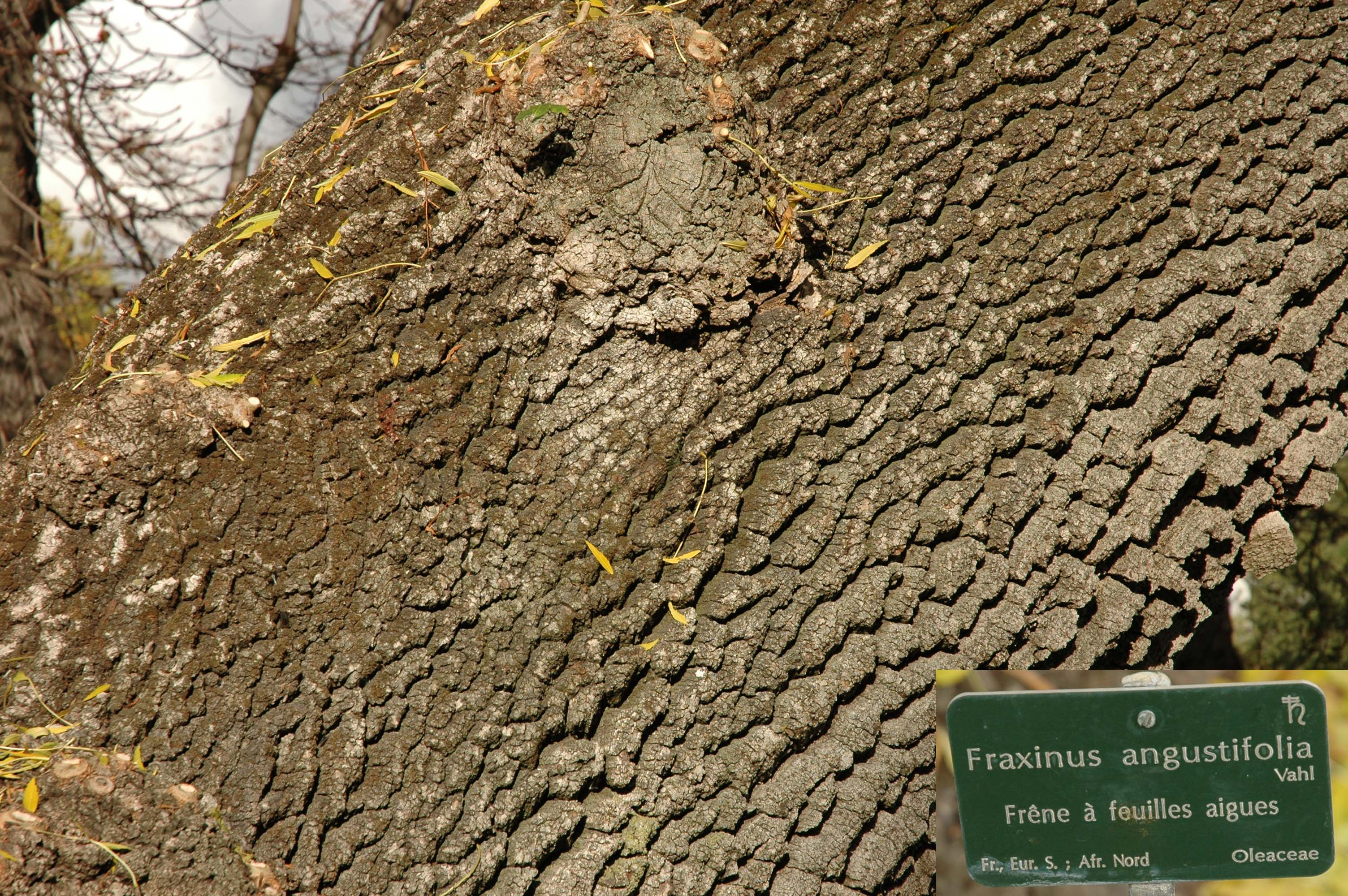 Fraxinus angustifolia Vahl in Jardin des plantes in Paris. Other photos of the same tree